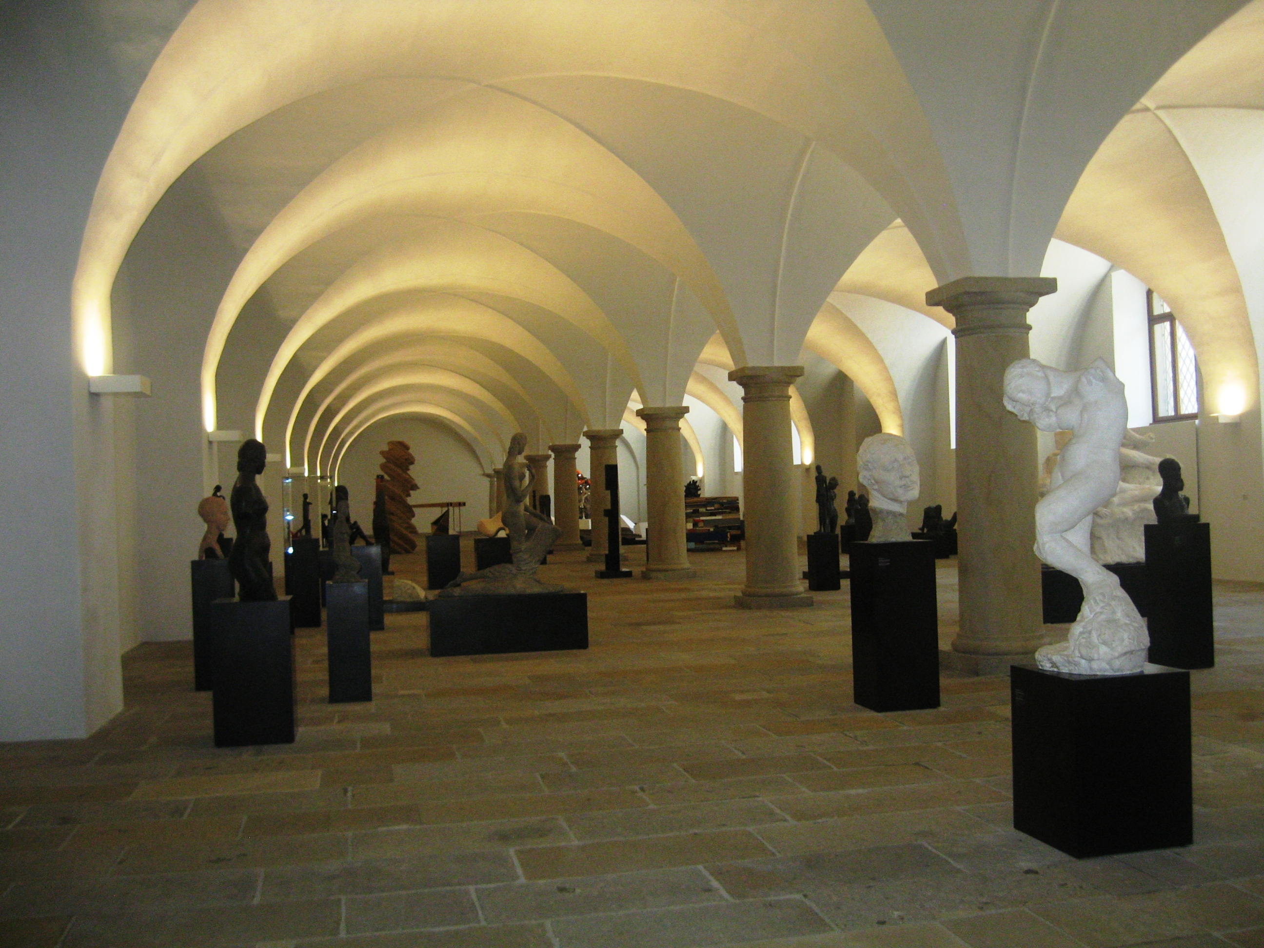 Skulpturensaal in Albertinum (Dresden)